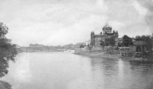 View of Grosny (synagogue) and river Sunzha.